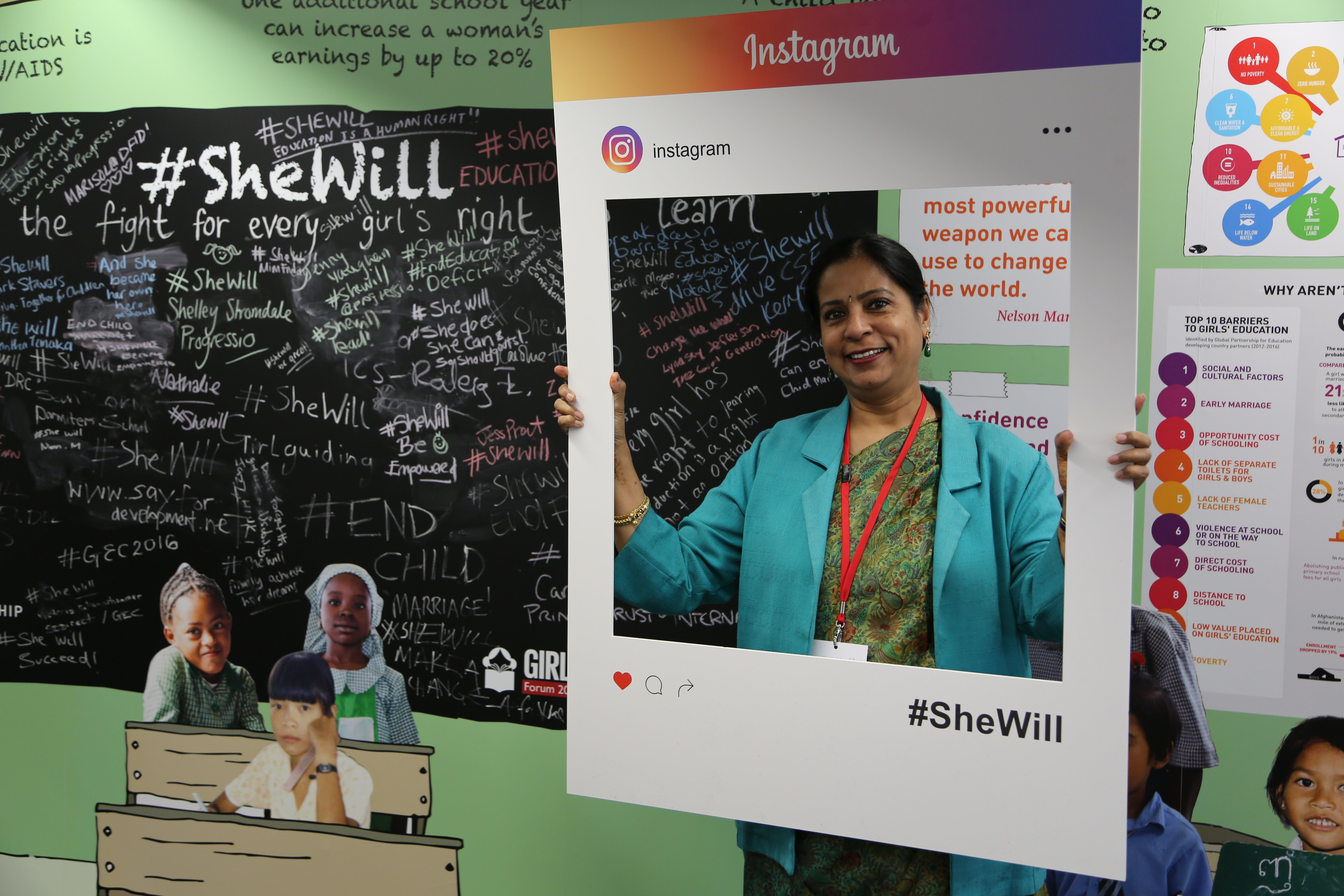 The UK government is joining forces with Global Citizen + CHIME FOR CHANGE to bring global attention to the issue of girls’ education. On 7 July, we will host the Girls’ Education Forum bringing together governments, private sector stakeholders, civil society partners and education champions to drive the implementation of Global Goal 4 to achieve universal, quality education. Attendees will also include returned volunteers and representatives fromVoluntary Services Overseas, a leading international development organisation funded by the UK government as part of International Citizen Service. The benefits of educating girls are overwhelming, yet 63 million girls remain out of school. What’s more, many of those in school are not getting the quality education they deserve and are dropping out. New commitments will be secured which will contribute to improving girls’ learning; ensuring that even the poorest and most marginalised girls have the opportunity to learn; and helping girls get a secondary education. The UK has helped 11 million children get an education in the last 5 years, training 177,000 teachers, building classrooms and ensuring the poorest girls and boys have school bursaries and textbooks. This work will continue with a commitment to help 11 million girls and boys gain an education by 2020. Picture: David McClenaghan/VSO